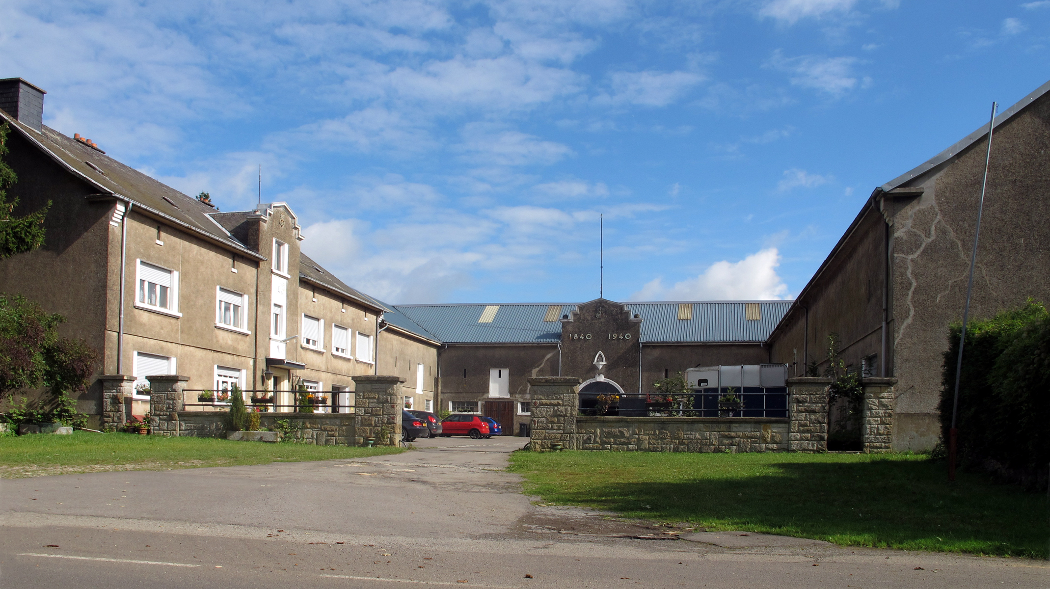 Roudenhaff near Pétange, Luxembourg